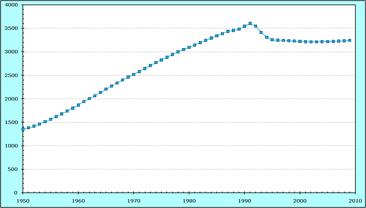 Armenia's population (1950-2010).